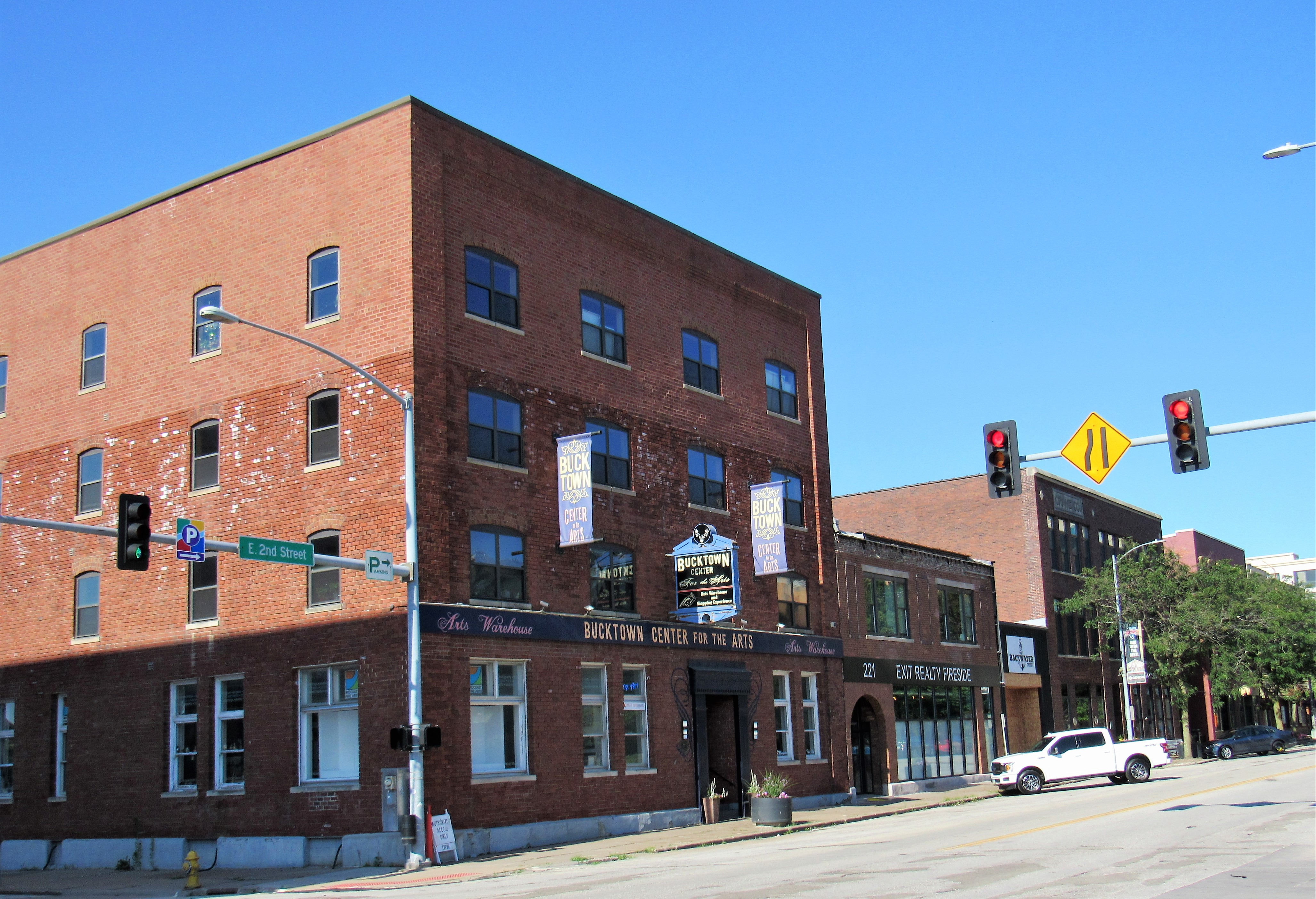 Buildings along East Second Street in the Davenport Motor Row and Industrial Historic District in Davenport, Iowa